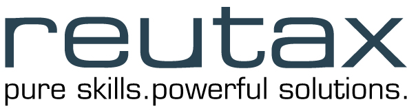 Company logo Reutax AG